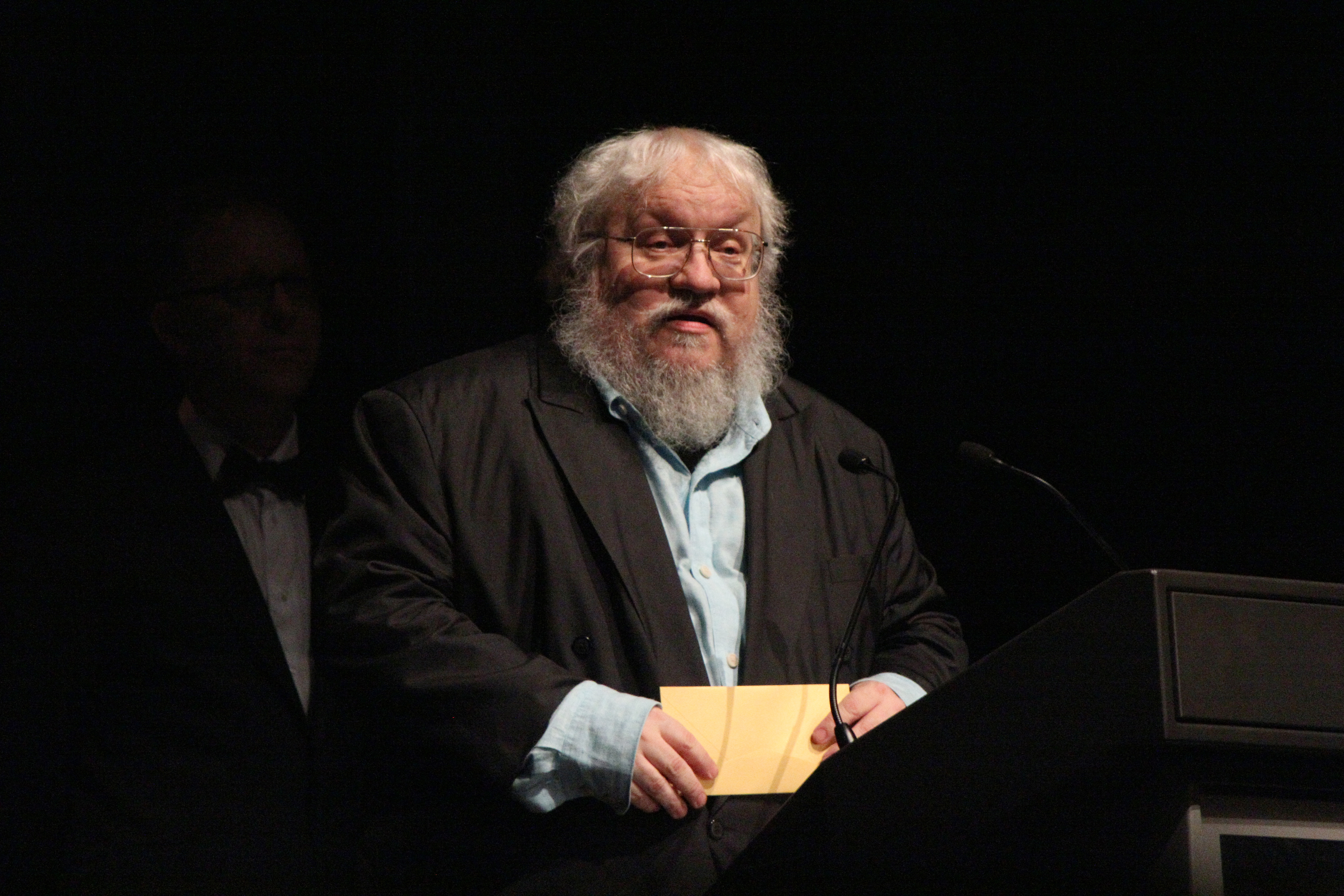 George R.R. Martin at the Hugo Awards ceremony 2010.